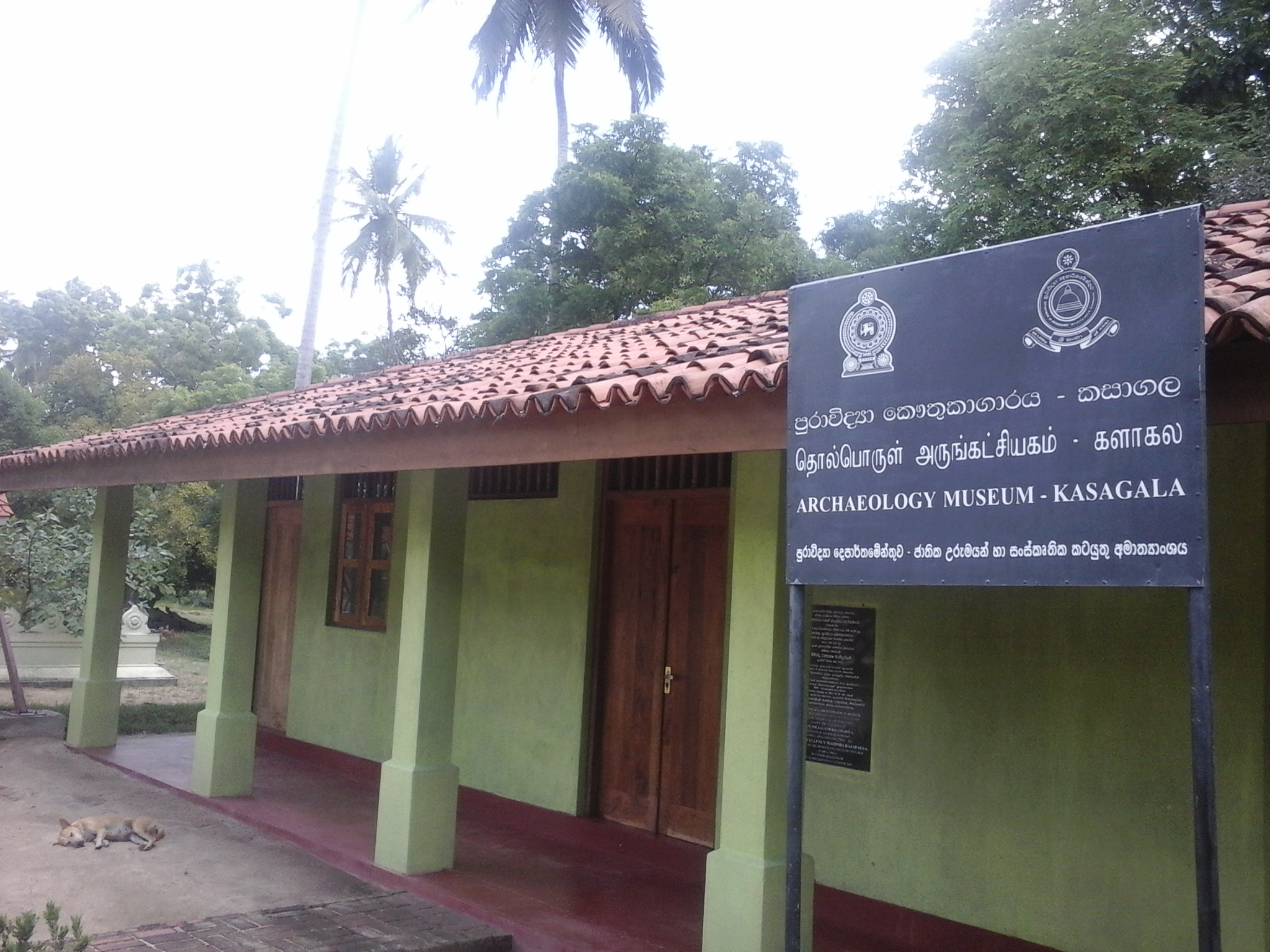 Kasagala Museum at Kasagala vihara